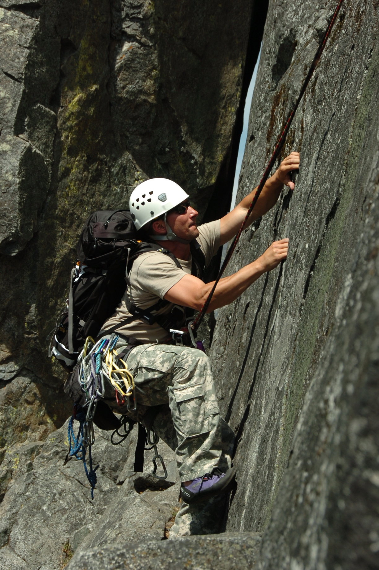 A Green Beret of 1st Special Forces Group (Airborne) climbs Castle Rock near Leavenworth, Wash. The Soldier was part of a group that conducted military mountaineering training to maintain the skills that allow them to reach their objectives in mountainous terrain anywhere in the world.